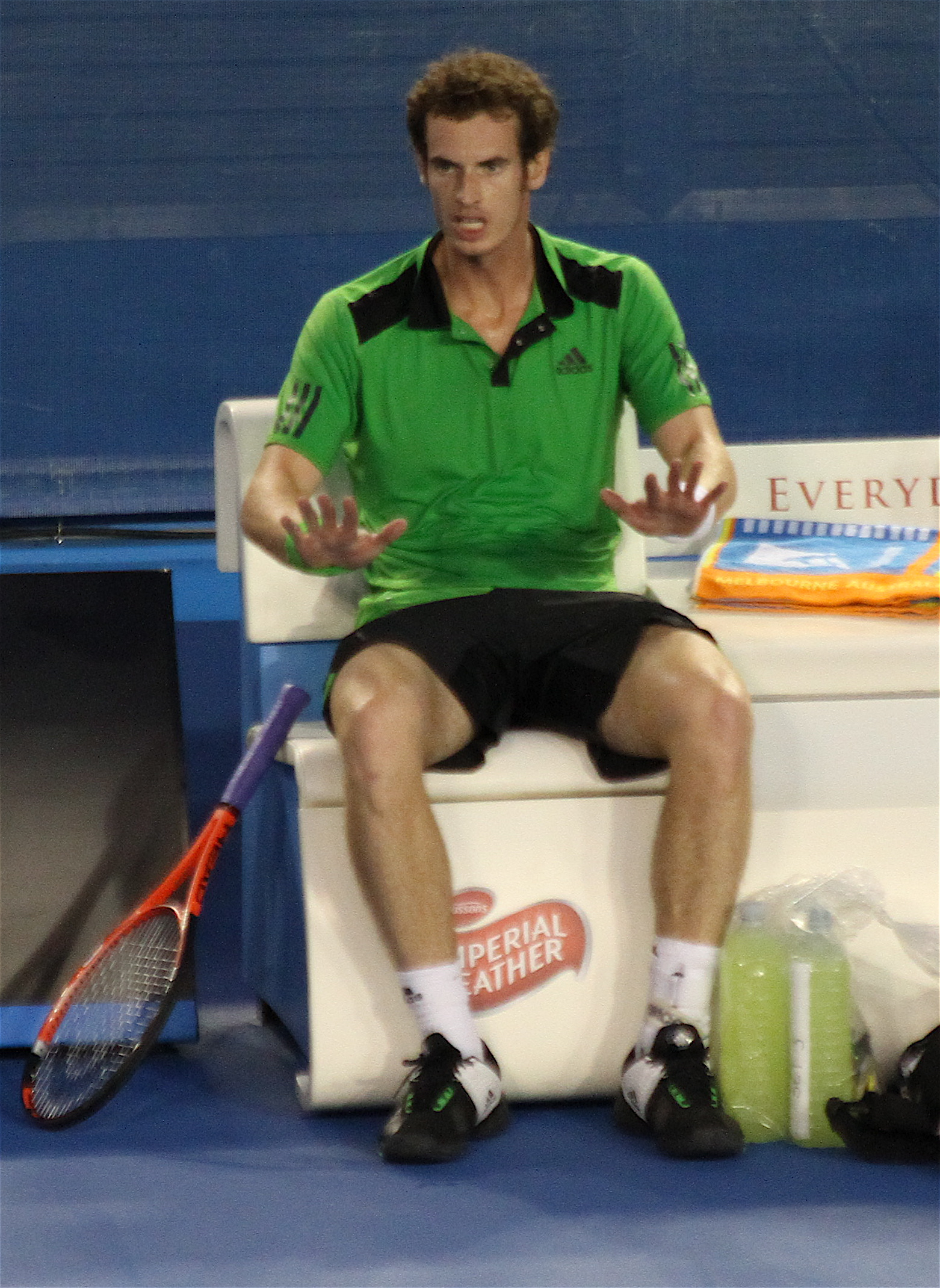 Murray tells himself to calm down during a change of ends of the 2011 Australian Open final